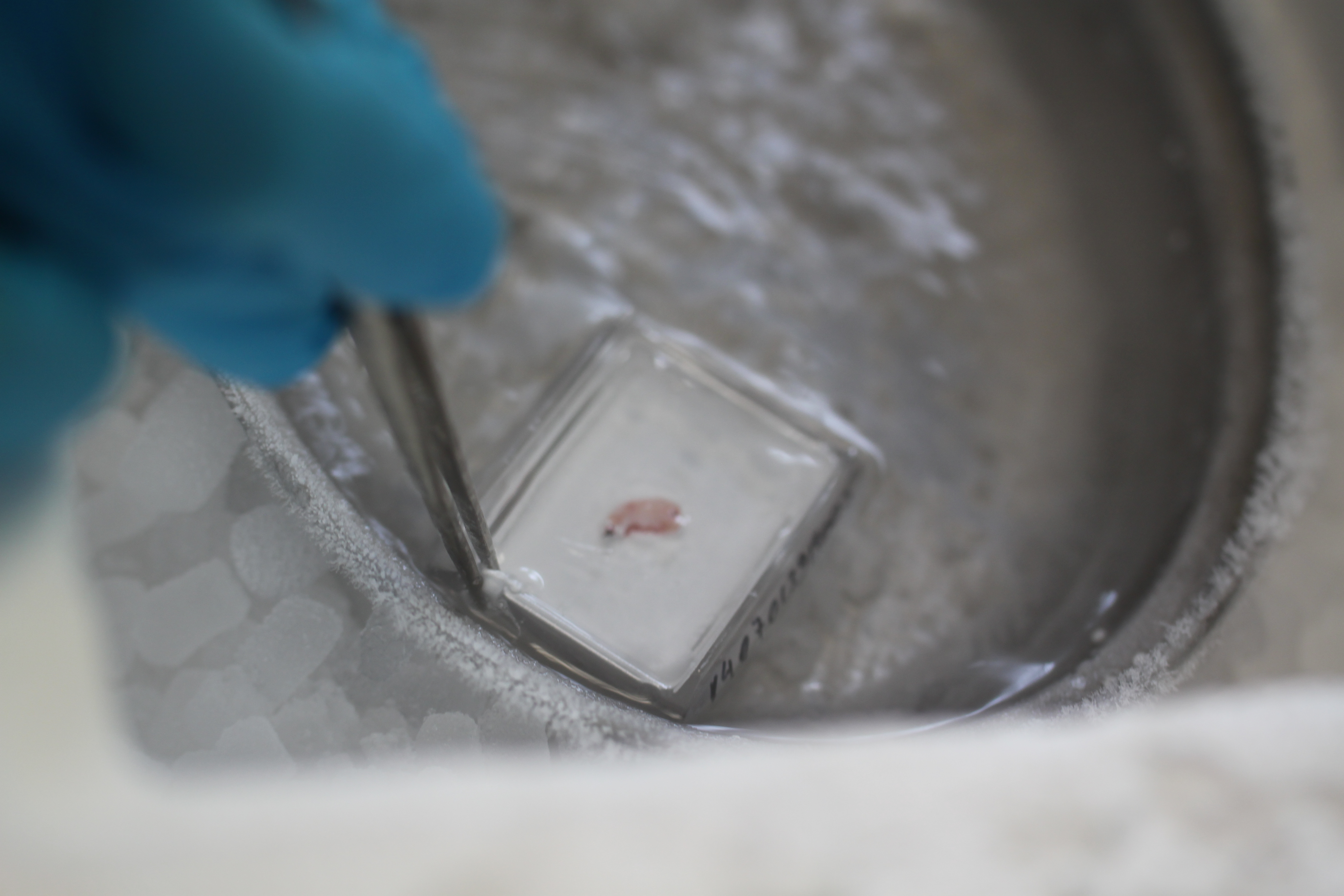 OCT embedding (Optimal Cutting Temperature compound)